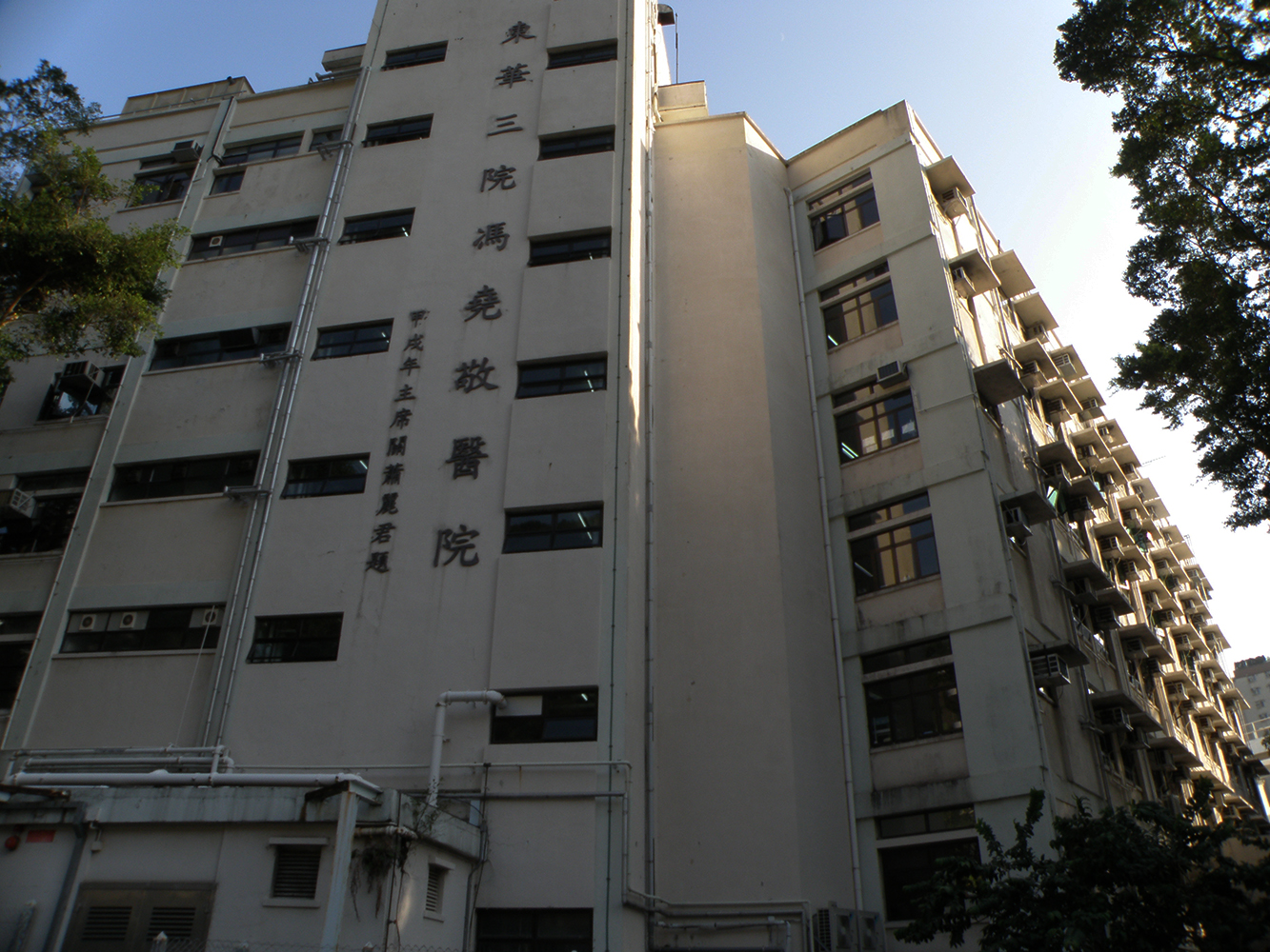 TWGHs Fung Yiu King Hospital in Pok Fu Lam, Hong Kong.